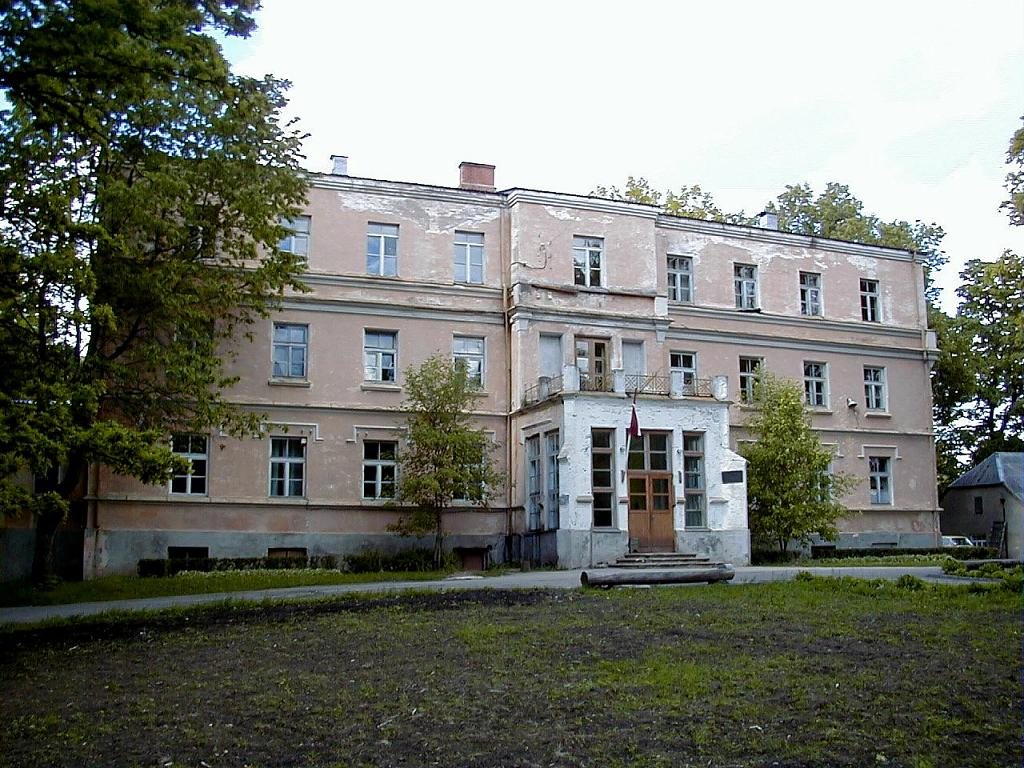 Taurupe Manor